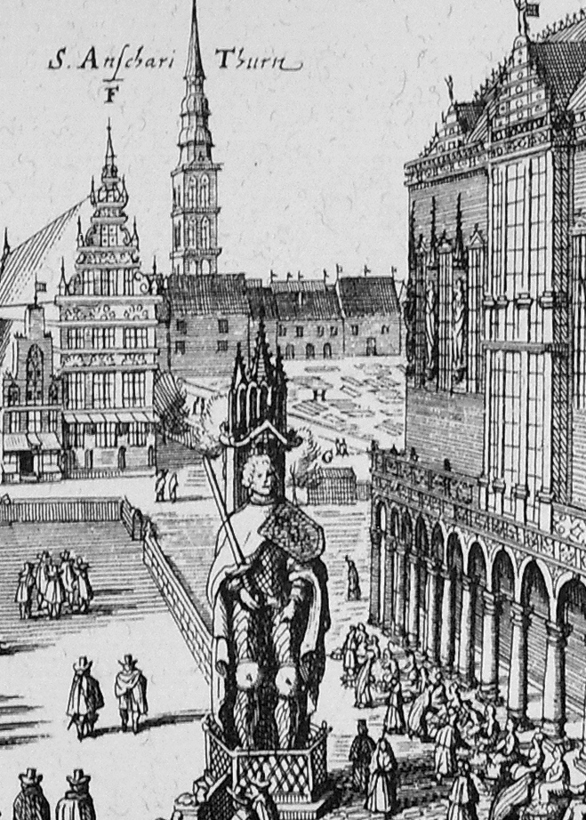 View from the Roland sculpture on Bremen market place in 1638–1641 towards that time stock exchange area and the tower of St. Ansgar church